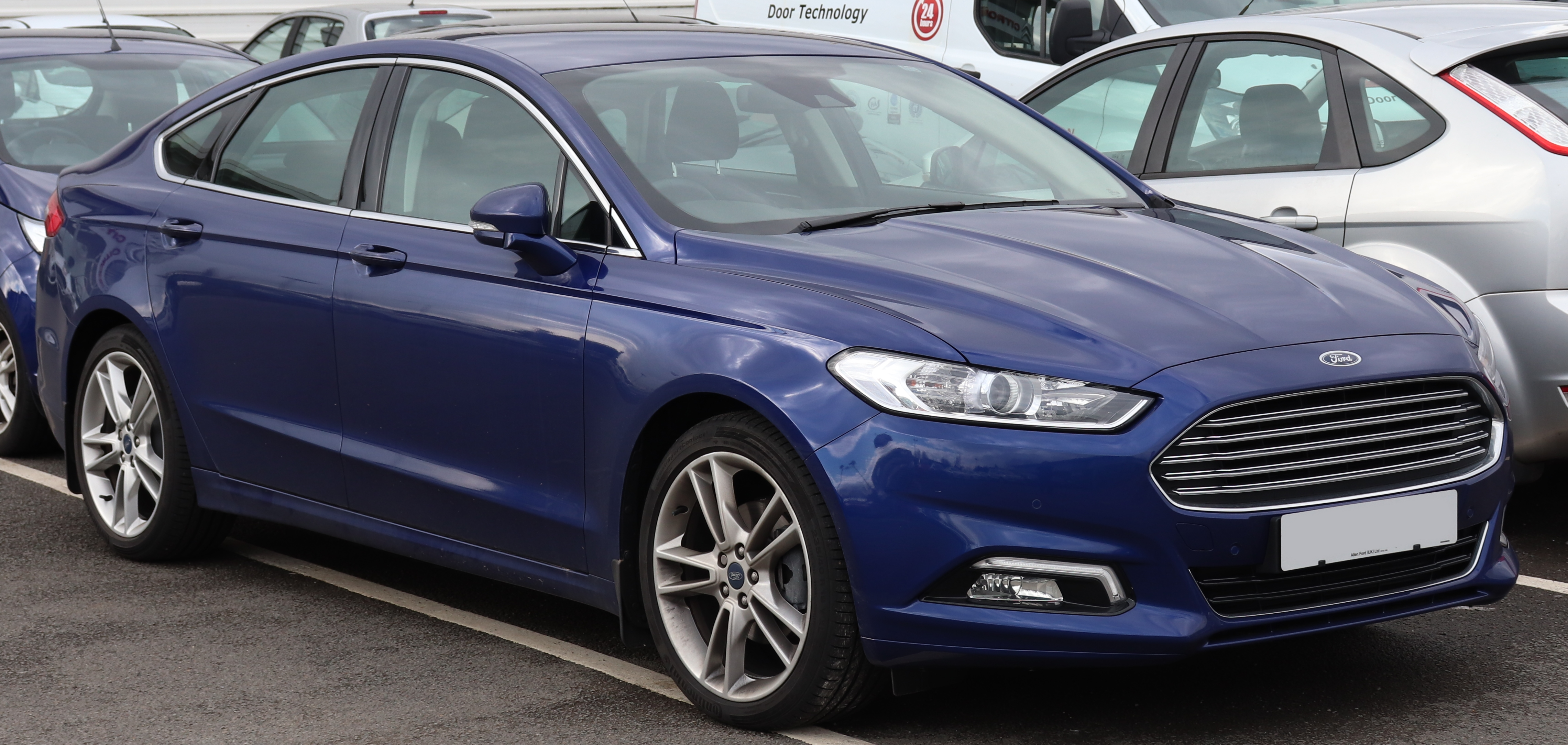 2018 Ford Mondeo Titanium TDCi Automatic 2.0 Taken in Leamington Spa